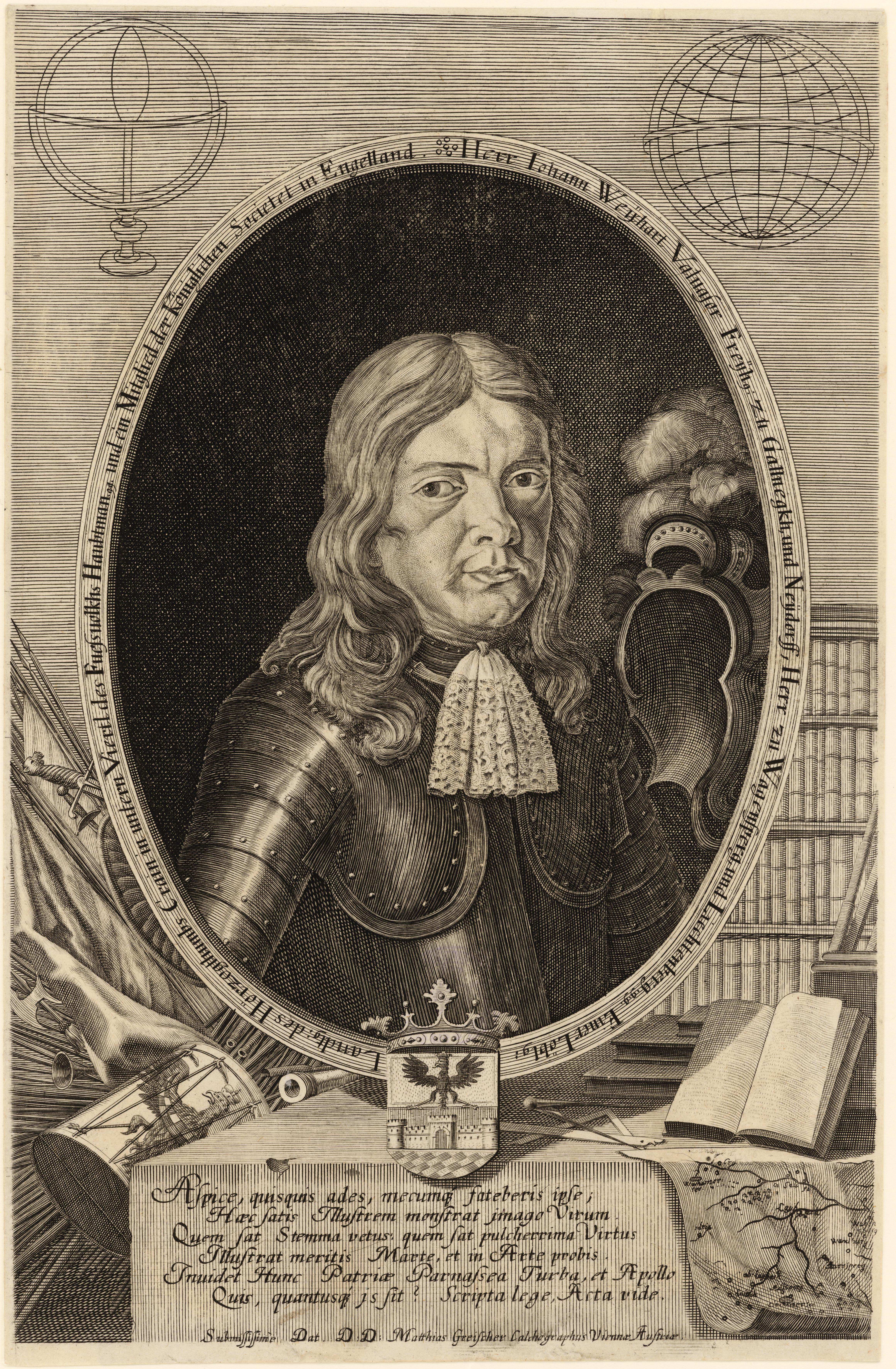 Johann Weichard Valvasor, Carniolan noble and polyhistor (1641-1693)